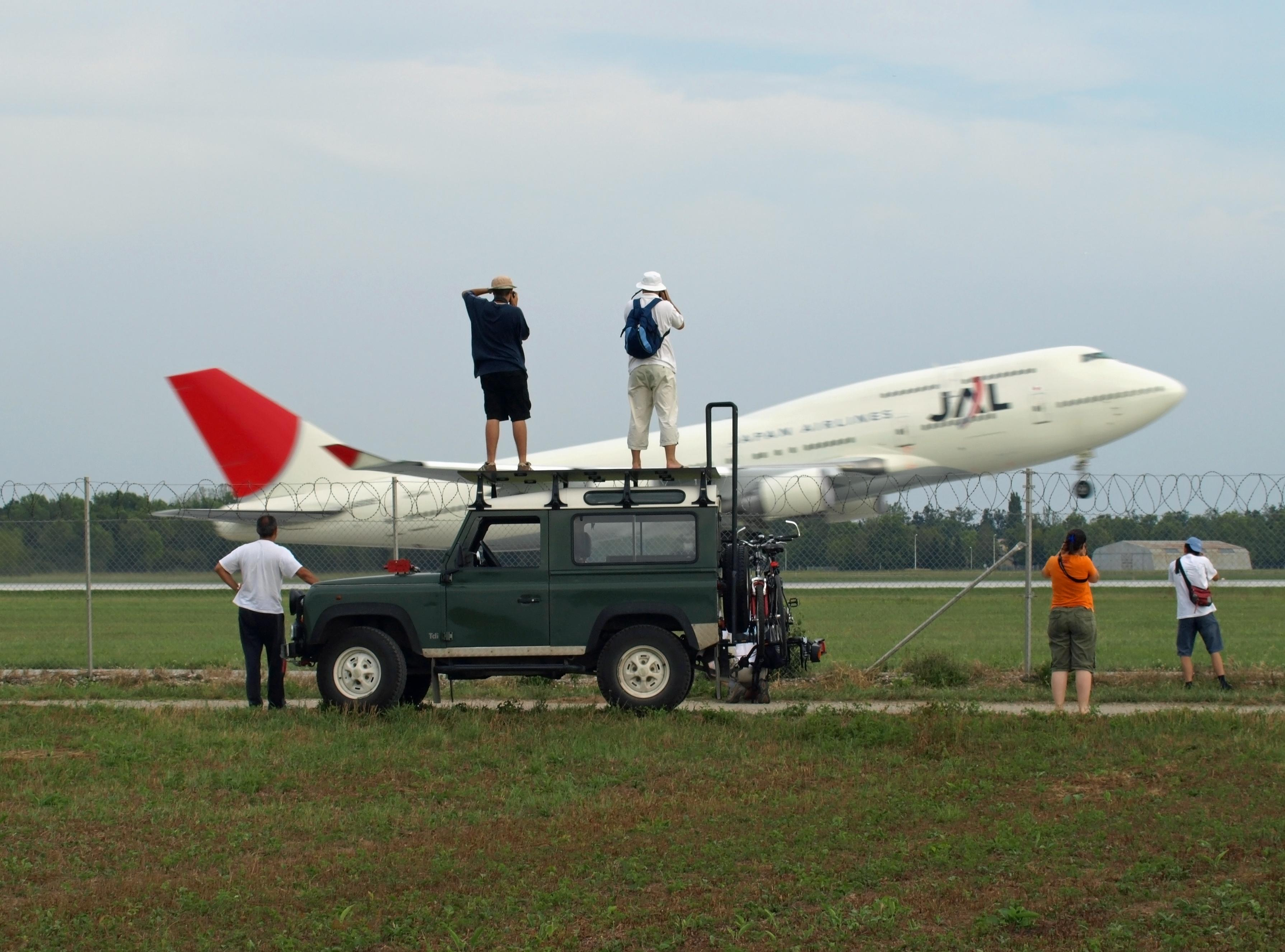 Spotters at Zagreb airport; JAL Boeing 747